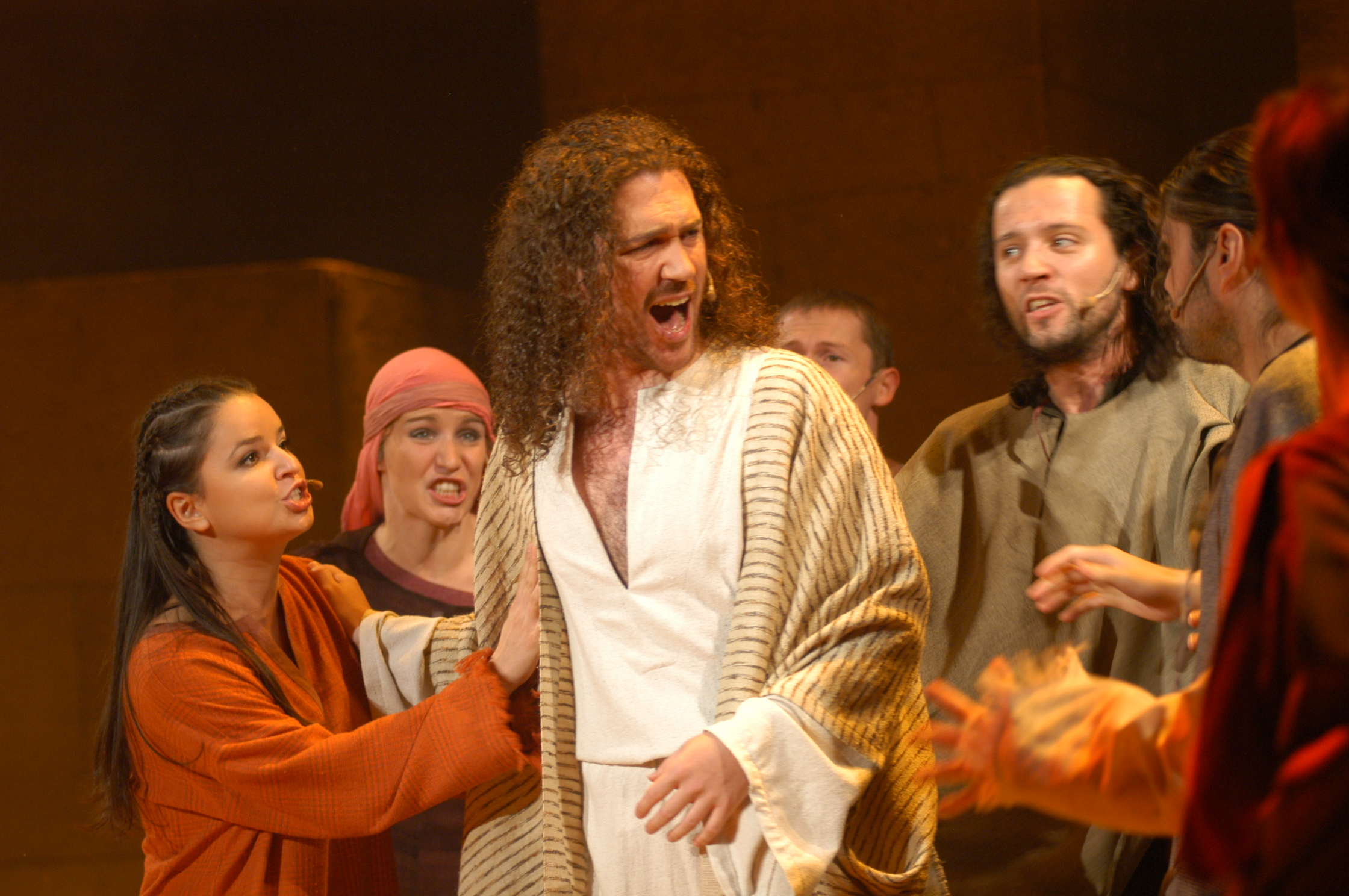 A Czech actor of Městské divadlo Brno Robert Jícha